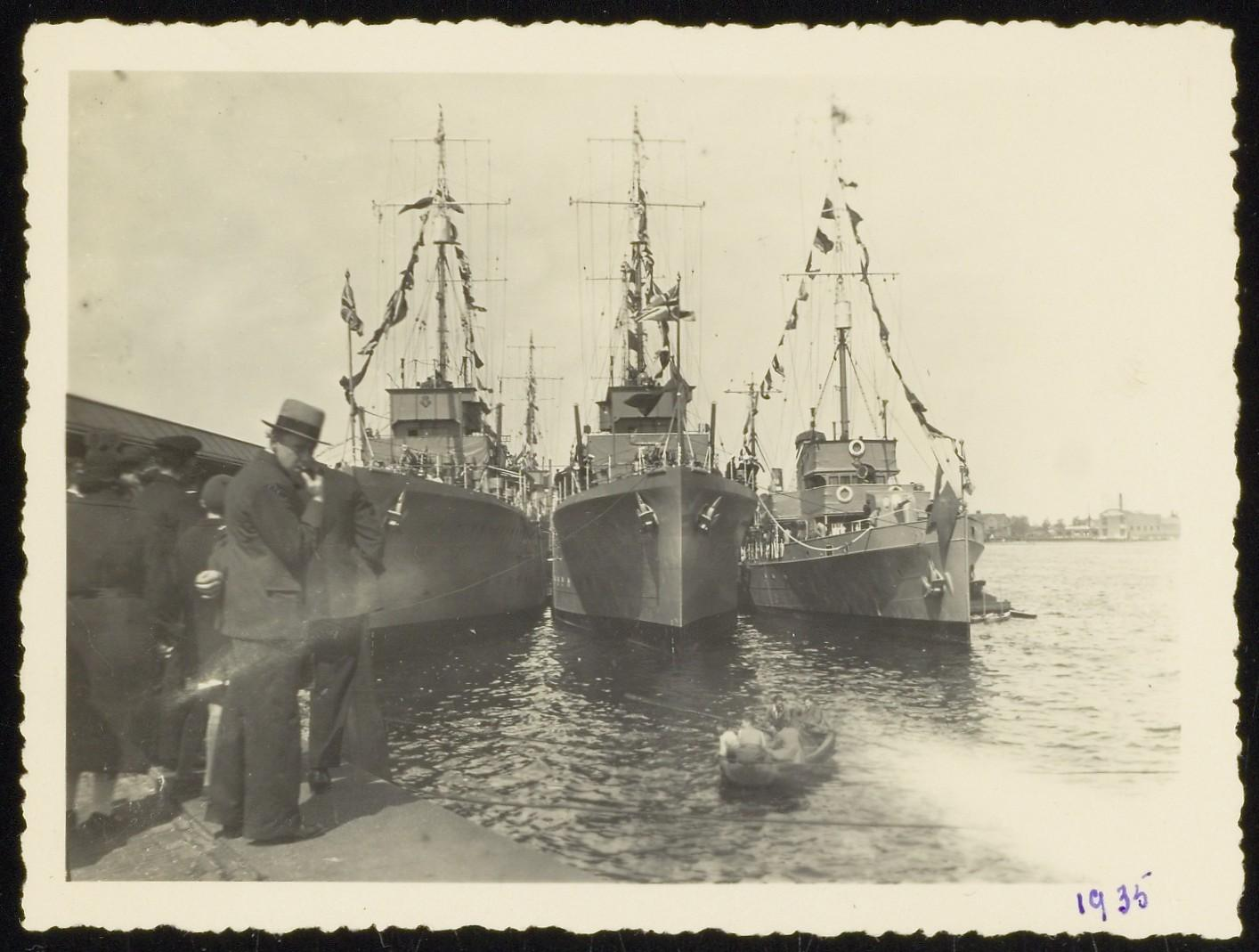 The British minesweepers Harrier, Dunoon and Hussar in the IJ at the jetty of the Holland-America line at the Westerdoksdijk